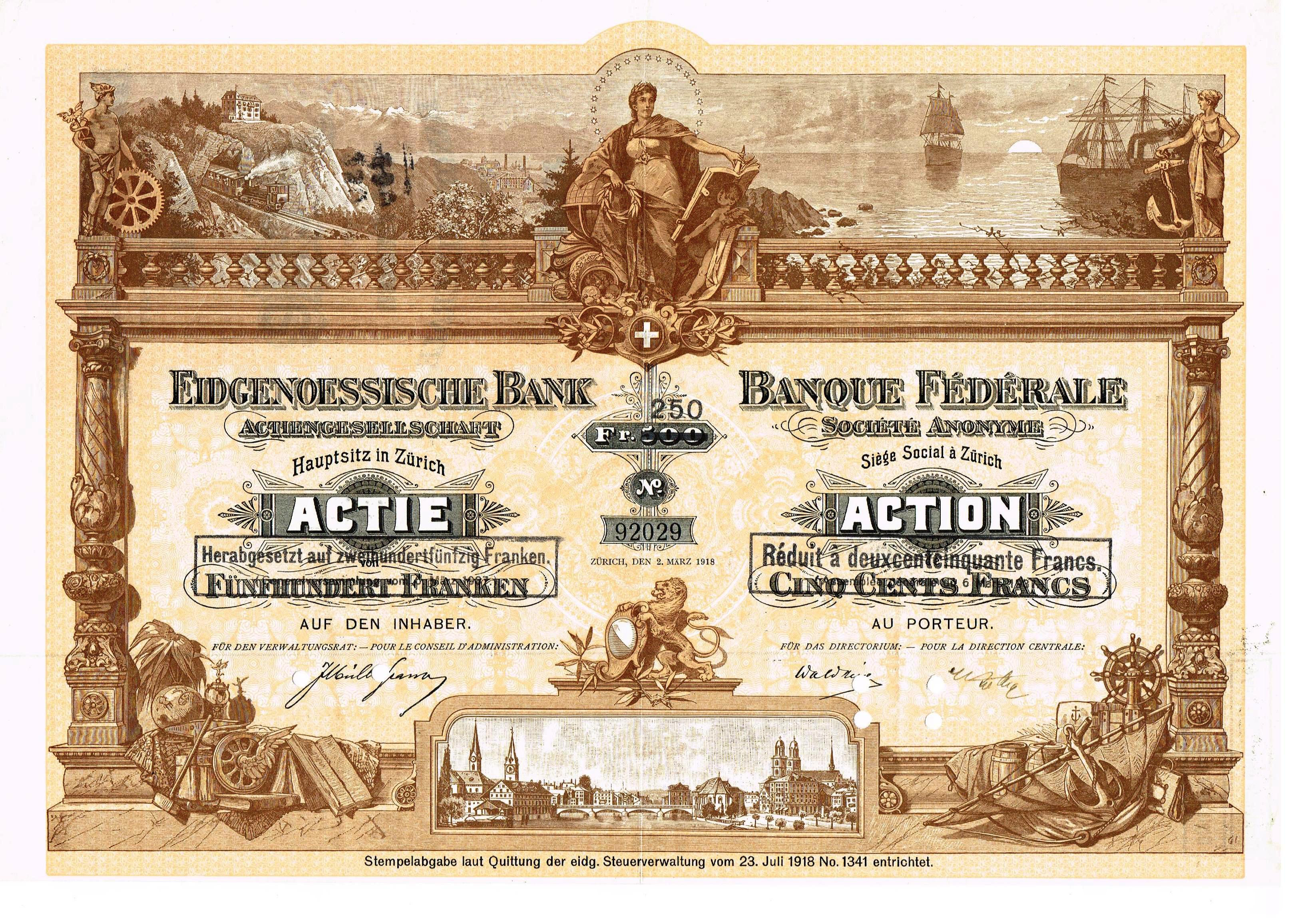 Share of the Eidgenoessische Bank AG, issued 2. March 1918